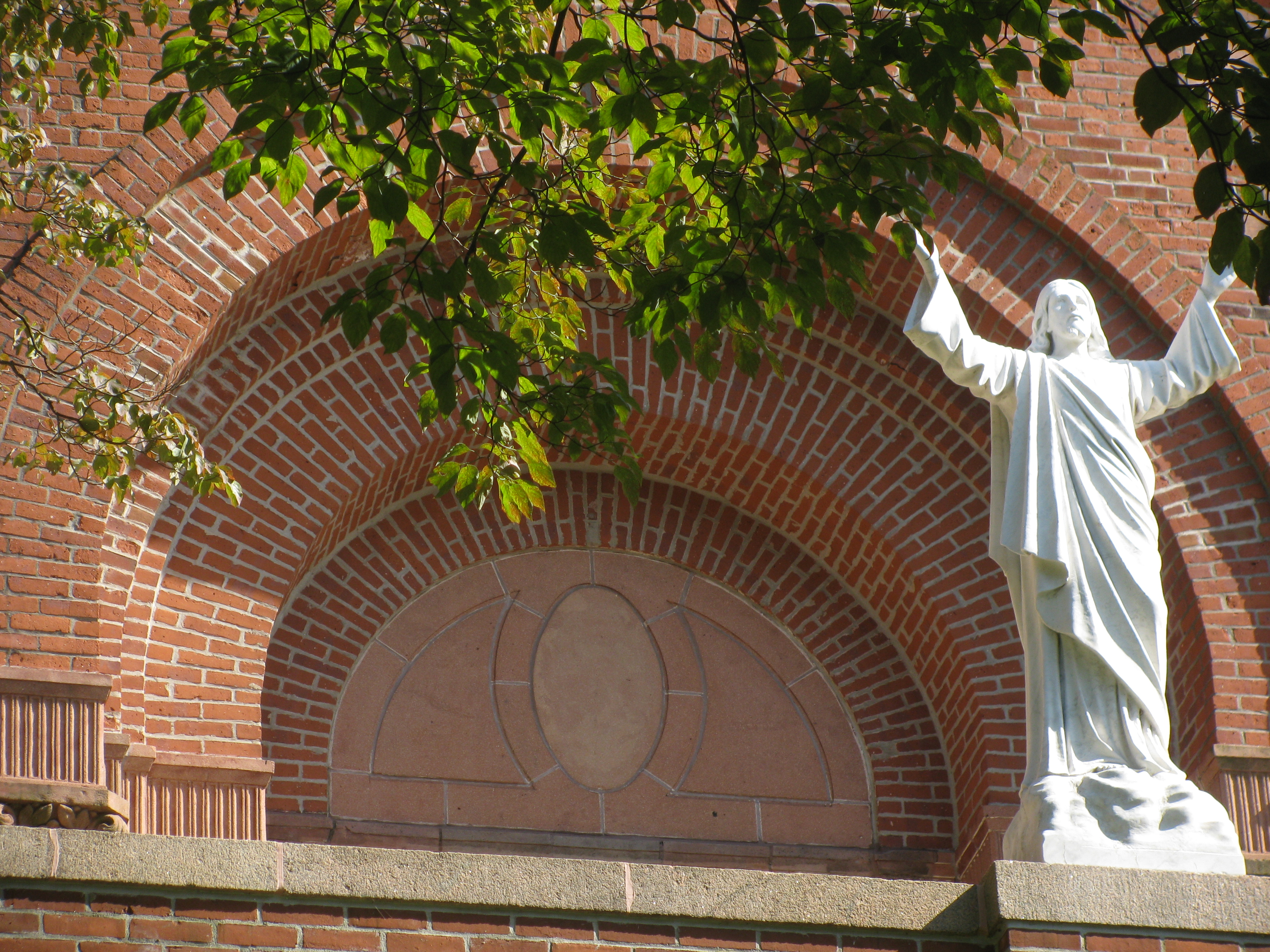 Front of St. Stan's Church and view of the Christ statue from Pleasant Street; photograph taken by Mateusz Rogalski.